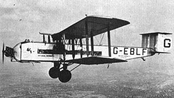 Armstrong Whitworth A.W.154 Argosy Mk I of Imperial Airways (1926)